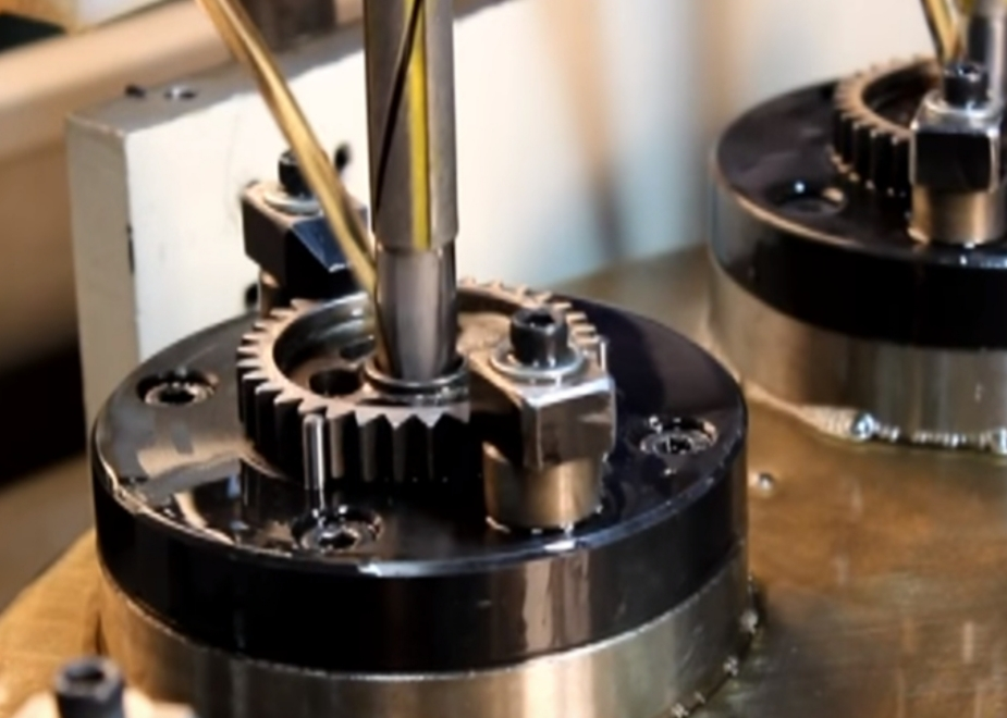 honing machine